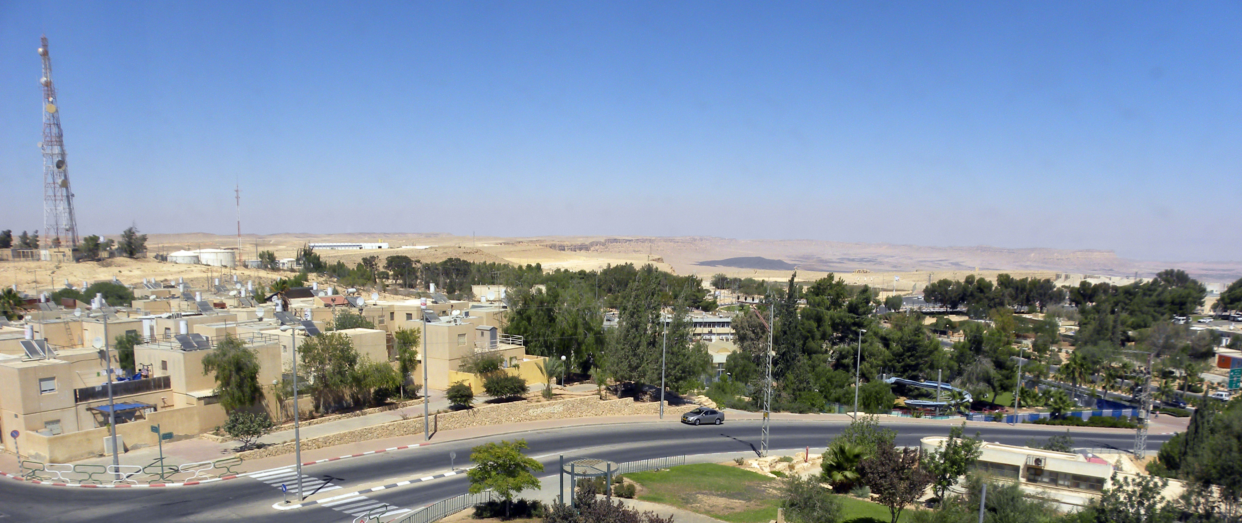 Mitzpe Ramon from the Ramon Inn looking towards Makhtesh Ramon.